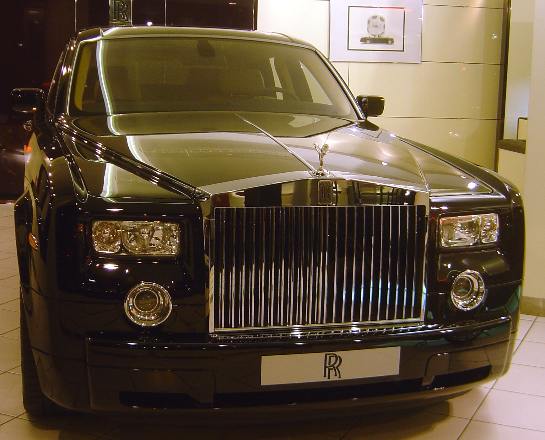 Rolls-Royce Phantom, sold at Neubauer's in Paris in 2005